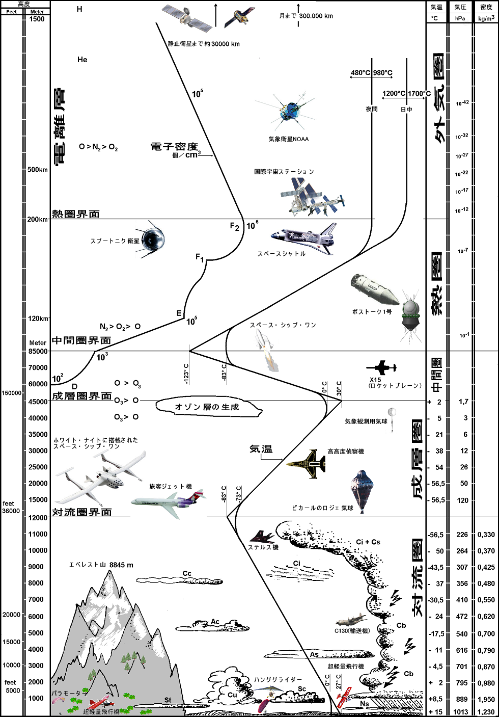 Atmosphere and Ionosphere